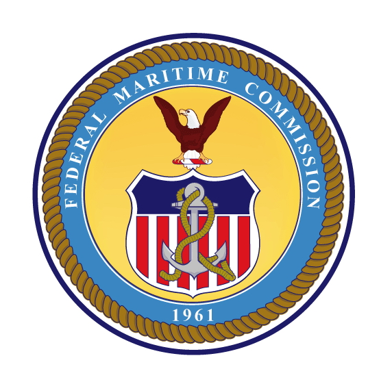 Seal of the U.S. Federal Maritime Commission.